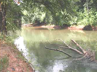 The Ocmulgee River near Macon, Georgia.